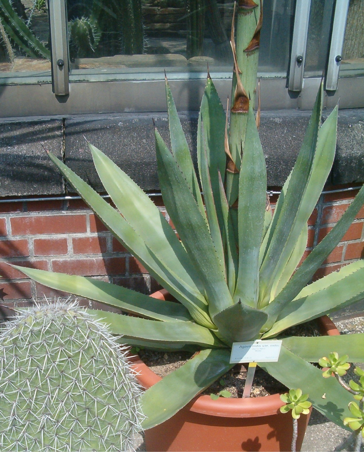 At Botanical Gardens Berlin-Dahlem Species Agave mitis var. mitis